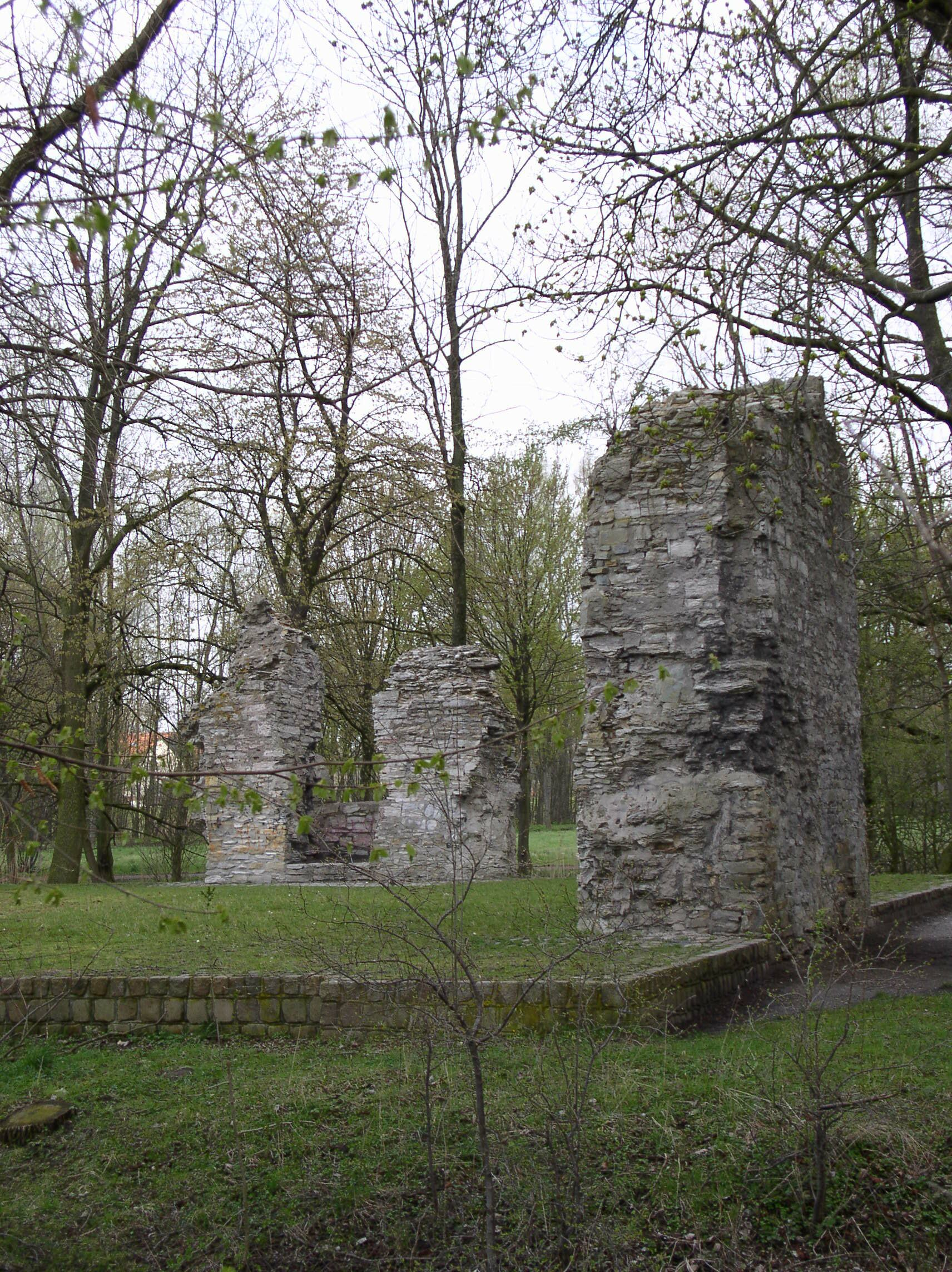 Ruins of Lippborg castle in Lippstadt, Kreis Soest, North Rhine-Westphalia (Germany)